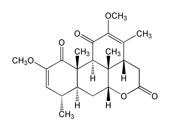 Structure of the diterpene lactone quassin. Created in ChemDraw by User:Walkerma, March 2006. Structure taken from Shing, T. K. M.; Jiang, Q; Mak, T. C. W. J. Org. Chem. 1998, 63, 2056-2057.